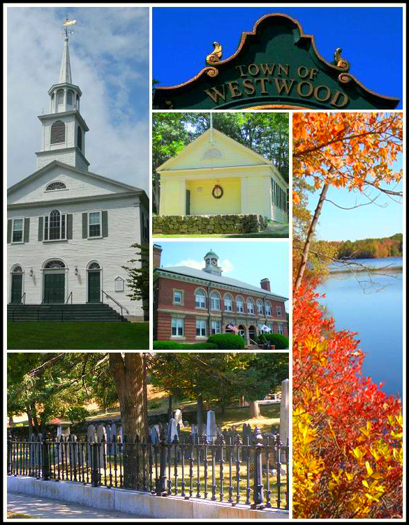 Montage of the town of Westwood, Ma